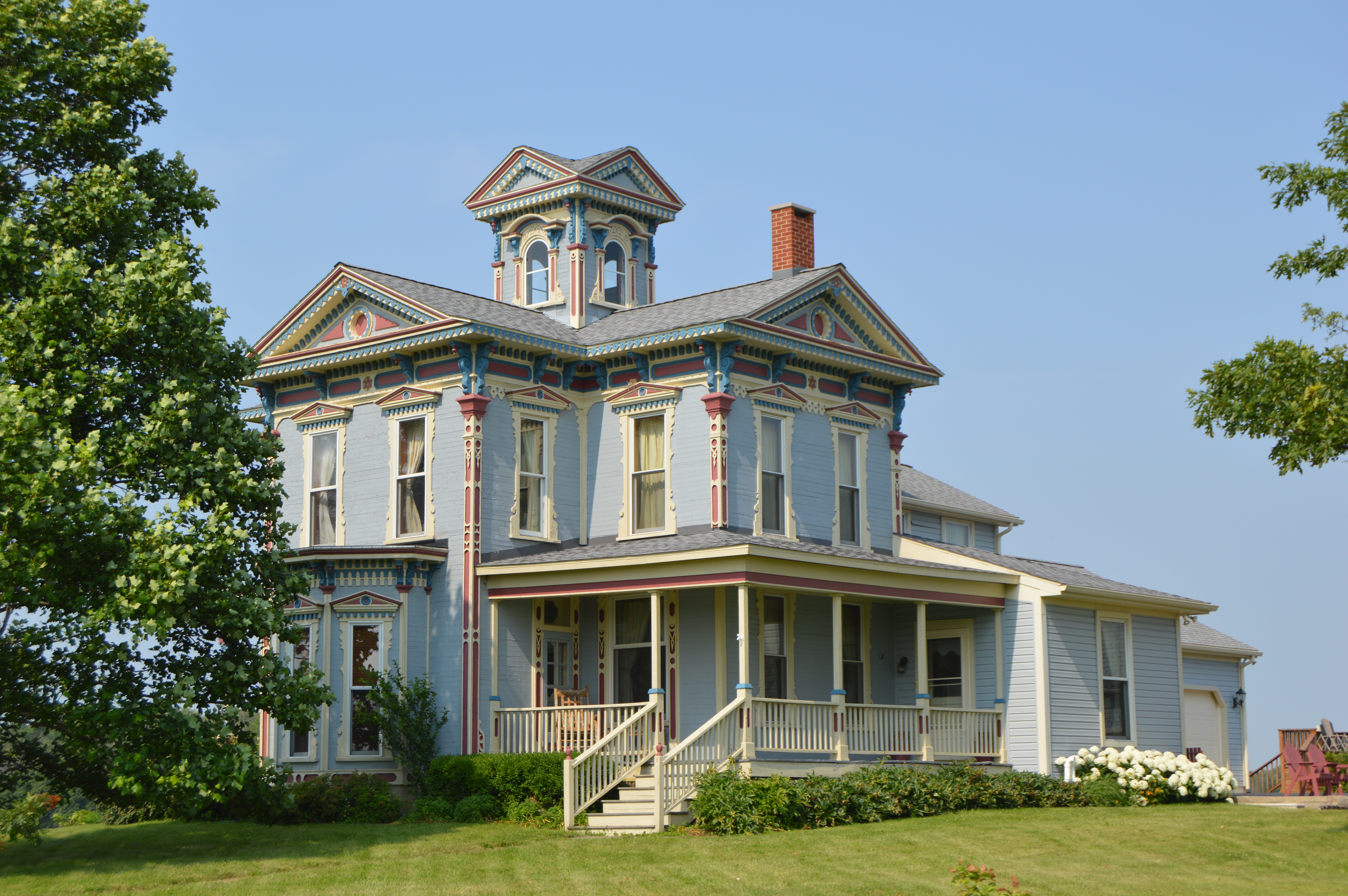 Northern side and front of an exceptional farmhouse located at 4813 Township Road 254 south of Arcadia in Washington Township, Hancock County, Ohio, United States. Built in 1889, it is an eclectic mix of architectural styles: the tower, the general massing, and the brackets are Italianate, the gable roofs and pediments with oculi are Neoclassical, and the rear is a functional modernist addition.